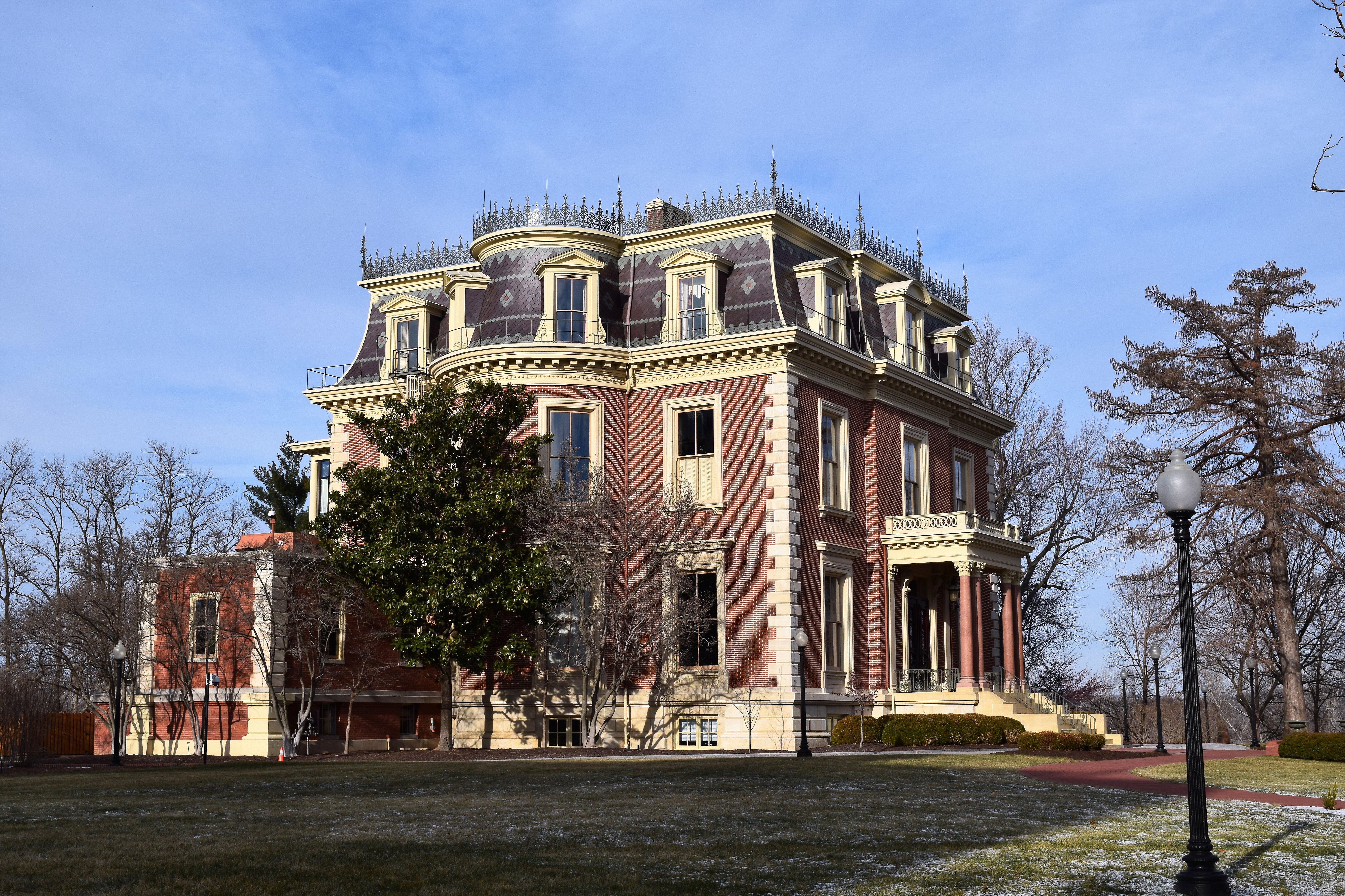 Looking at the Missouri Governor's Mansion from the south. The house, located at 100 Madison St. in Jefferson City, is the official residence of the Governor of Missouri.